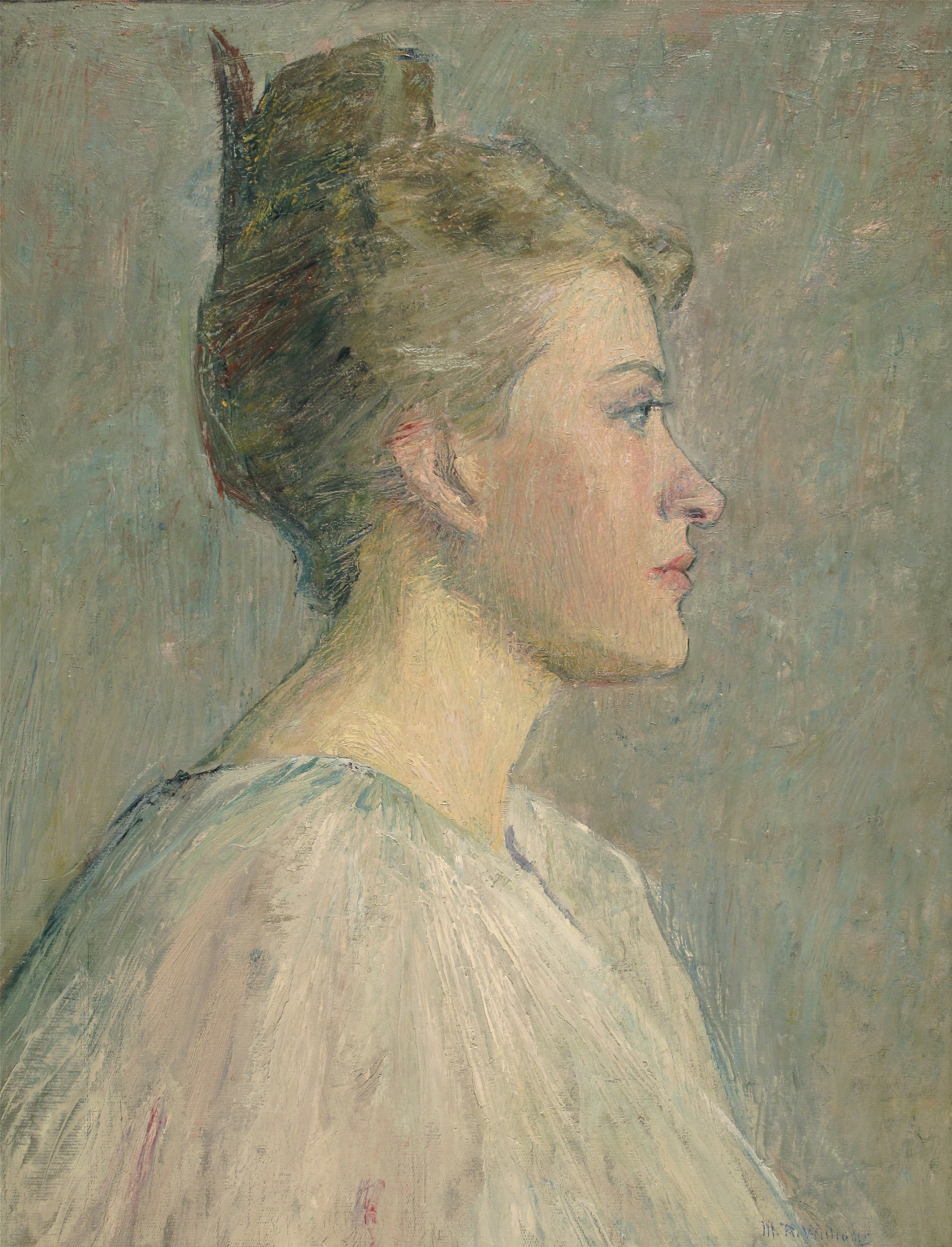 A Profile, c. 1895, oil on canvas, 21 x 16 inches, by Mary Rogers Williams (1857-1907), private collection